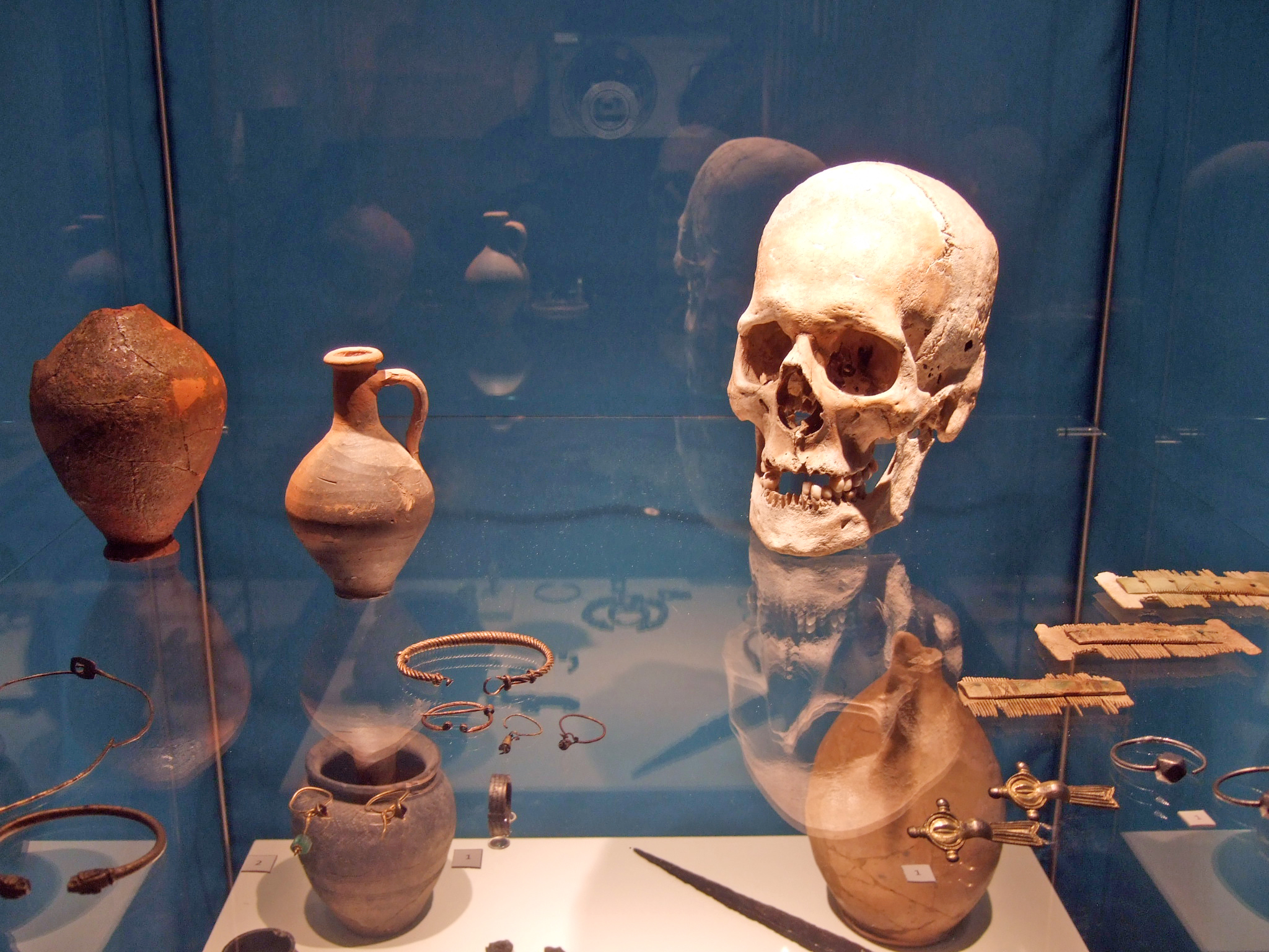 Finds from the Lombard cemetery in front of the southern wall of the fort at Keszthely-Fenékpuszta Zala County, Hungary In front of the southern wall of the fortress are several graveyards at which, in all, over 1000 graves from the late 4th to the second half of the 9th century have been excavated. Directly in front of the western part of the south wall is a large cemetery of early Keszthely culture (6th-7th centuries). On both sides of the southern gate directly in front of the wall is Carolingian era cemetery from the second half of the 9th century. At a remove of about 200 meters is a Migration Era grave field of the 5th century from which 21 skeletons with artificial cranial deformation have been recovered. The custom of cranial deformation was brought to Central Europe by the Huns. Grave 2000/100 (left) Burial of a woman, late 4th to early 5th century. 1. Finger ring of silver ribbon with ribbed decoration. 2. Pair of earrings, gold. On each ring a little basket with pendant was soldered. In the basket an inset almandine. Grave 2000/120 (left, edge) 1. Neck ring (torque) of thin, turned bronze wire, with a semilunar pendant of rolled silver. 2. Arm band with snakehead ends, bronze. Grave 1976-2/5 Burial of a woman, second half of the 5th century 1. Pair of polyhedron-shaped earrings. 2. Silver arm ring. Grave 1977-2/10 (rights) Burial of a woman, second half of the 5th century 1. Silver bow fibula pair of the 'Béndekpuszta Type', fire gilded. Photographed while on display from 22 August 2008 to 11 January 2009 in the exhibition "Die Langobarden. Das Ende der Völkerwanderung" at the Rheinisches LandesMuseum Bonn. On loan from the Balatoni Múzeum Keszthely.